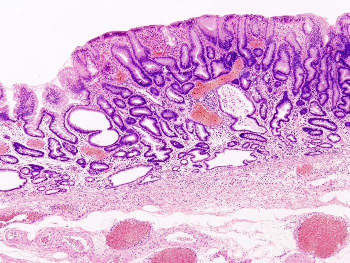 Histopathology of gastric adenoma obtained from endoscopic mucosal resection. H & E stain.